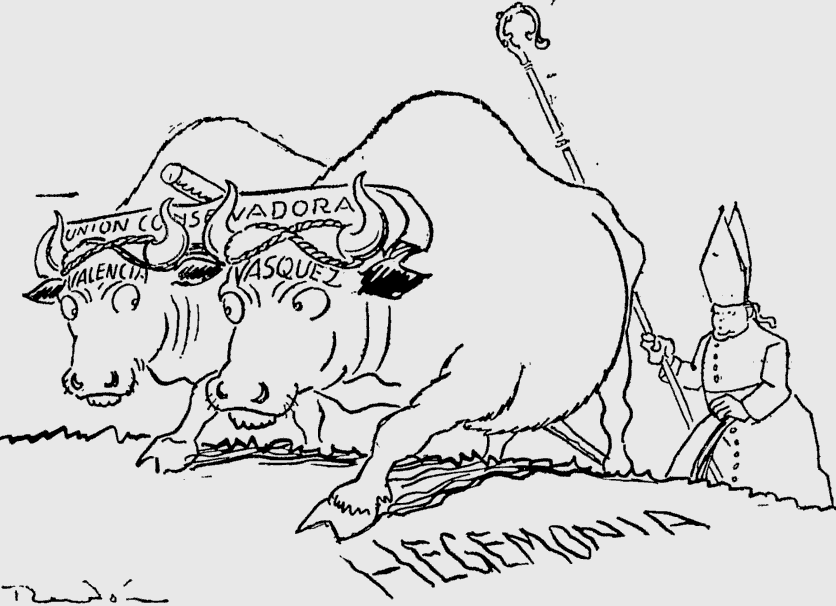 Hegemonía conservadora by Ricardo Rendón